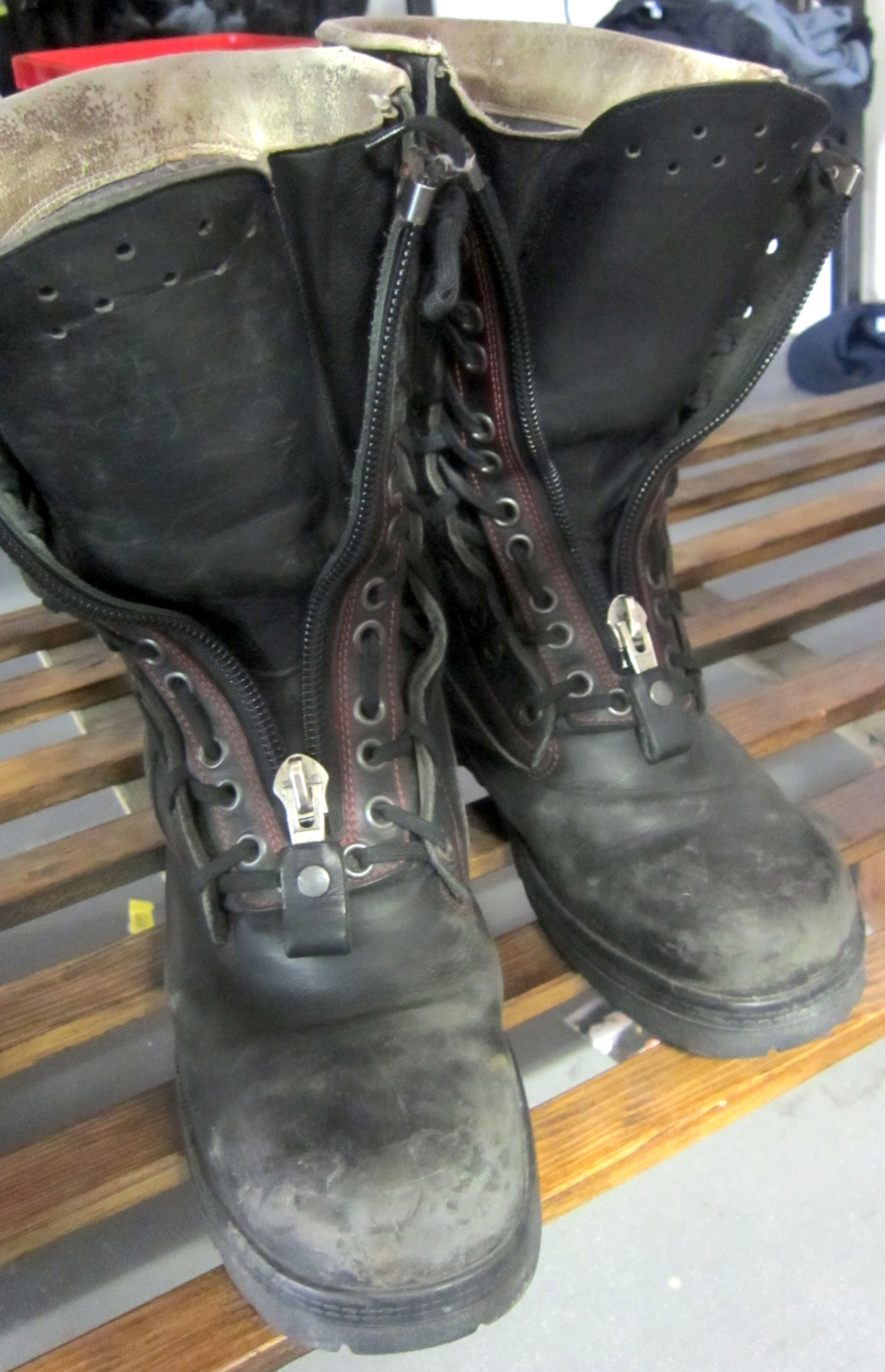 A pair of safety boots used by professional firefighters in Augsburg Germany featuring laced in quickzip boot closures.